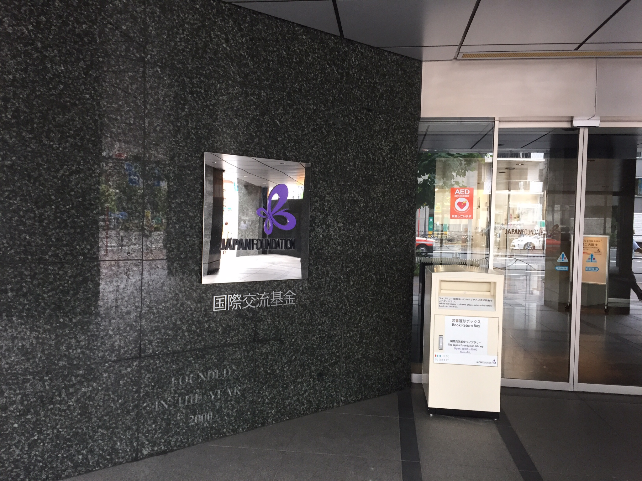 The Japan Foundation 4-4-1 Yotsuya, Shinjuku-ku, Tokyo中文（中国大陆）: 国际交流基金位于日本东京四谷的总部。1层内设有图书室。图中有图书归还箱。